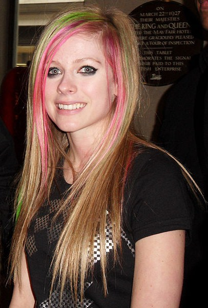 Avril Lavigne and Sarahwinterman